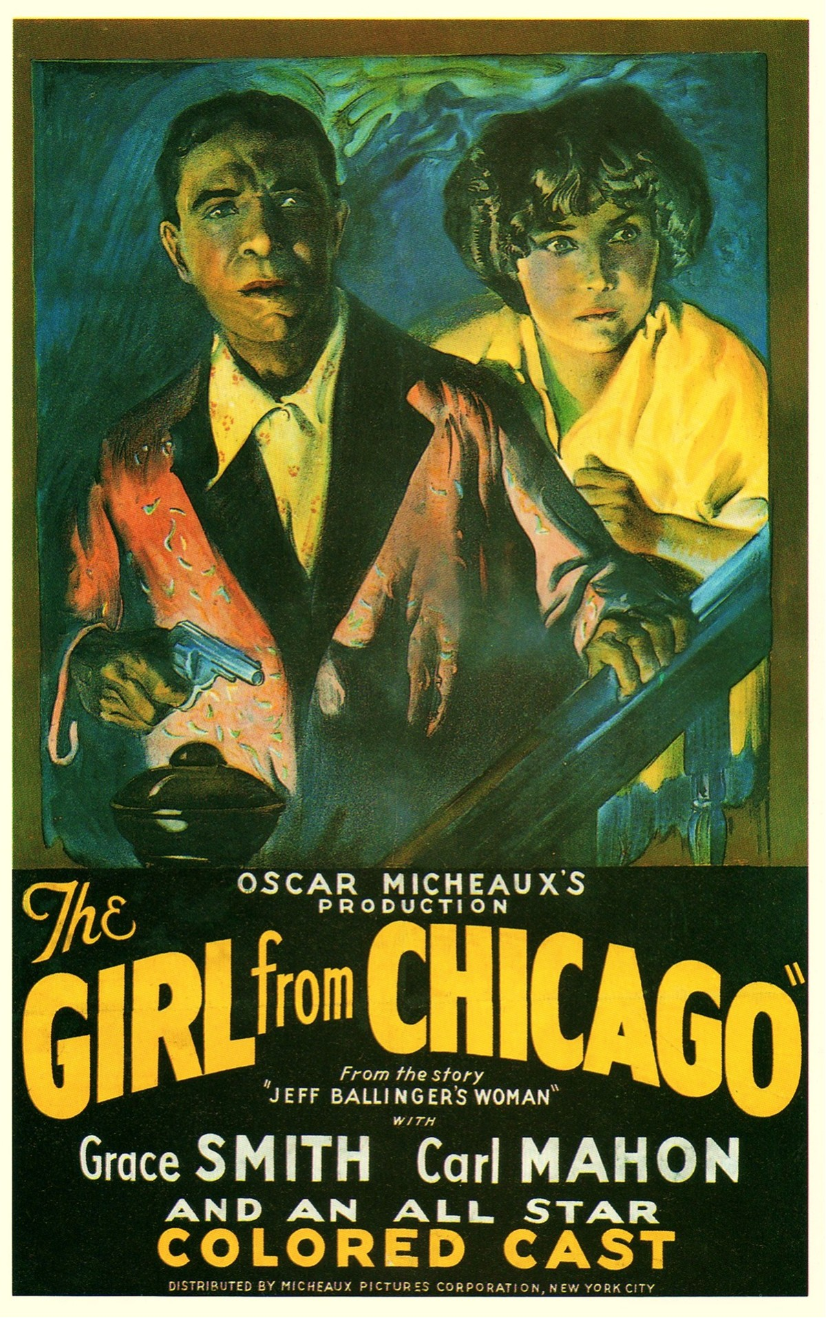 Poster for the American drama film The Girl From Chicago (1932). The item has no copyright markings on it as can be seen in the link above.